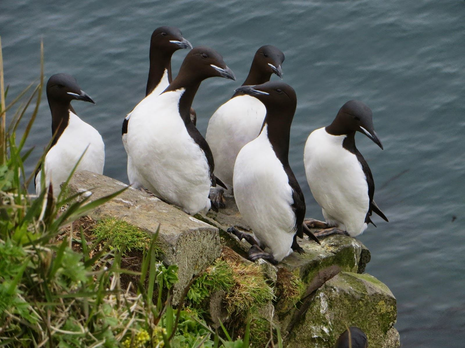 Thick-billed murres by Greg Thomson/USFWS.